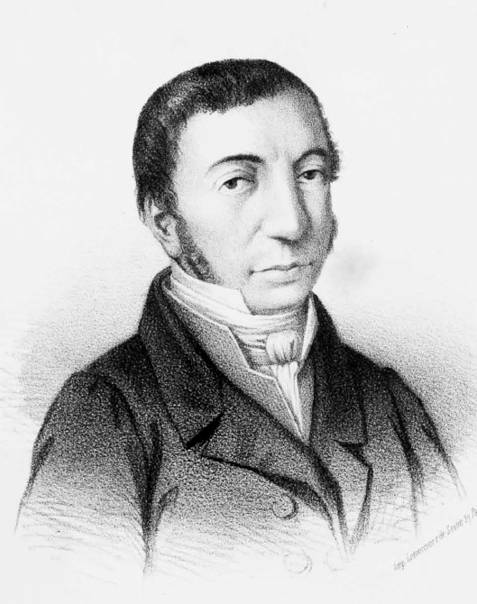 Greek scholar and educator Constantinos Vardalachos (1755-1830)